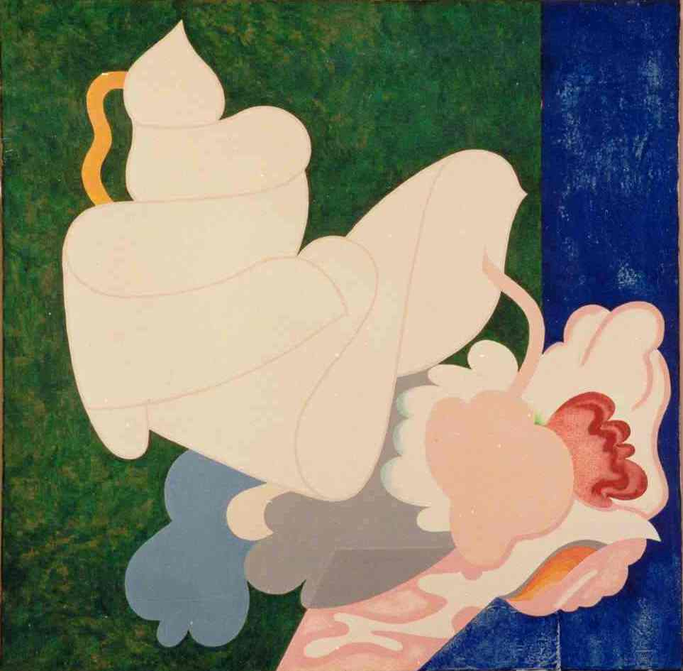 Painting by Keith Sutton 2nd half 1970s author